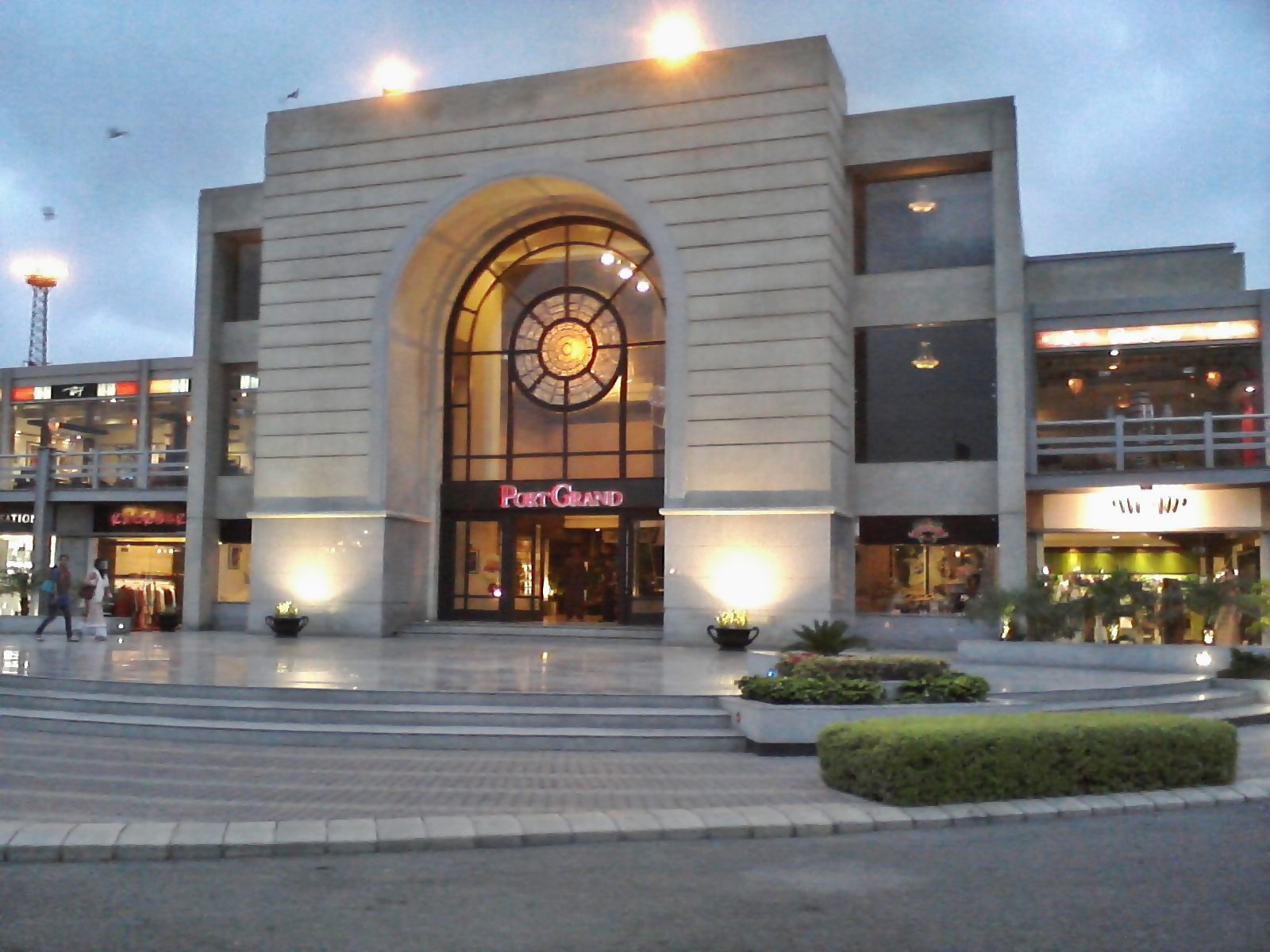 Port Grand Food Street in Karachi, Pakistan.